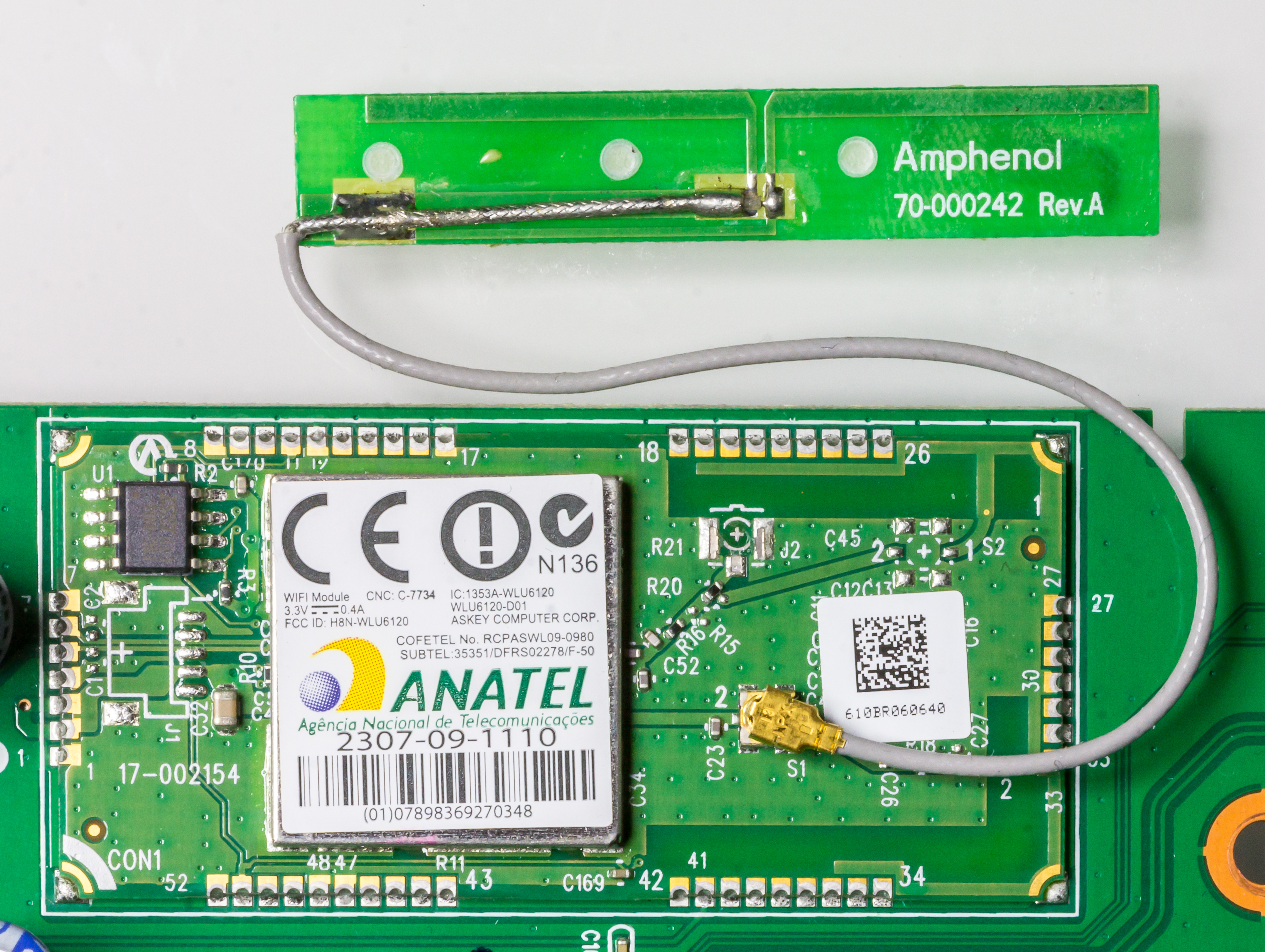 Wi-Fi network card on a mainboard of a Kodak printer/scanner, made by Askey Computers with a Wi-Fi Internal PCB Antenna with Coax Cable, made by Amphenol. The module has as CE marking and permissions by Agência Nacional de Telecomunicações (Anatel), and Comisión Federal de Telecomunicaciones (Cofetel)